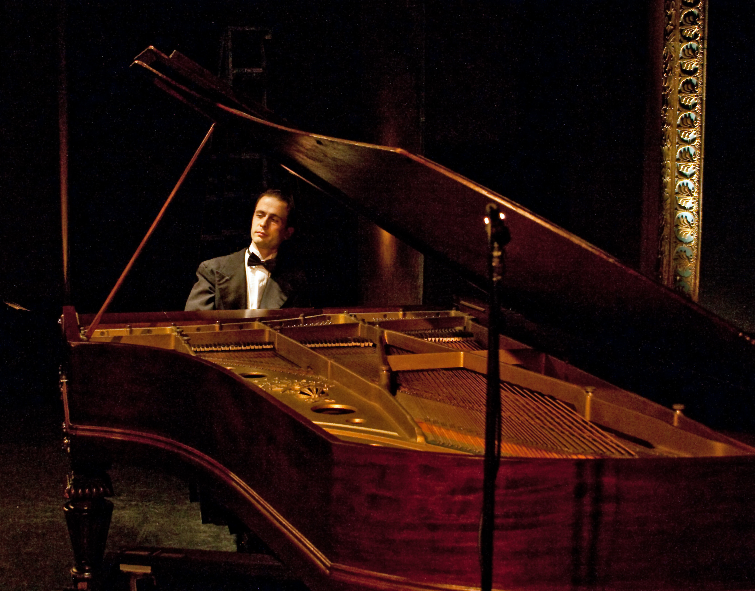 Giorgi Latsabidze perfoming in Pennsylvania (Opera House)